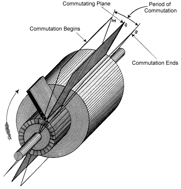 Dynamo - commutating plane definitions